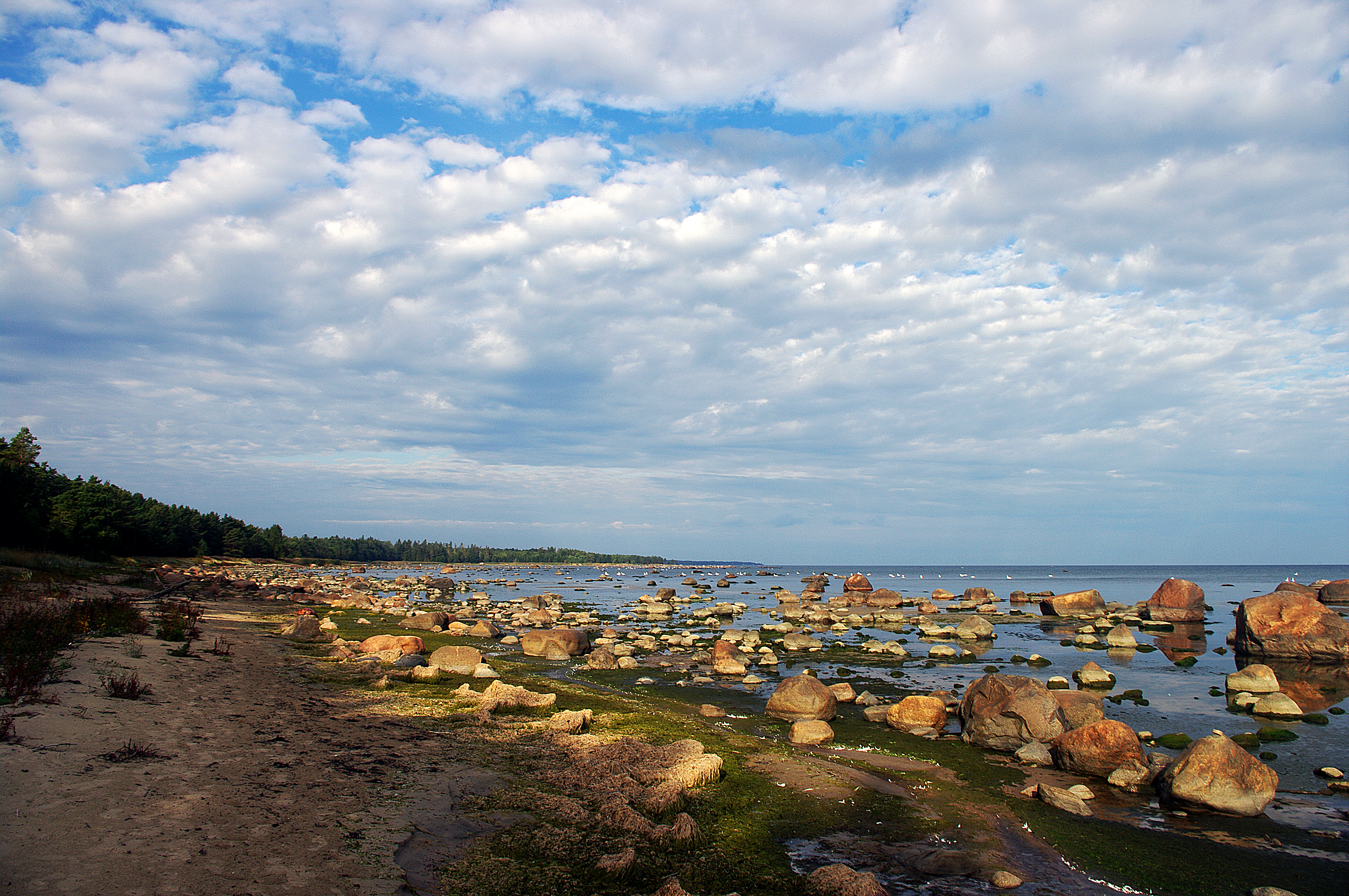 Karepa coast